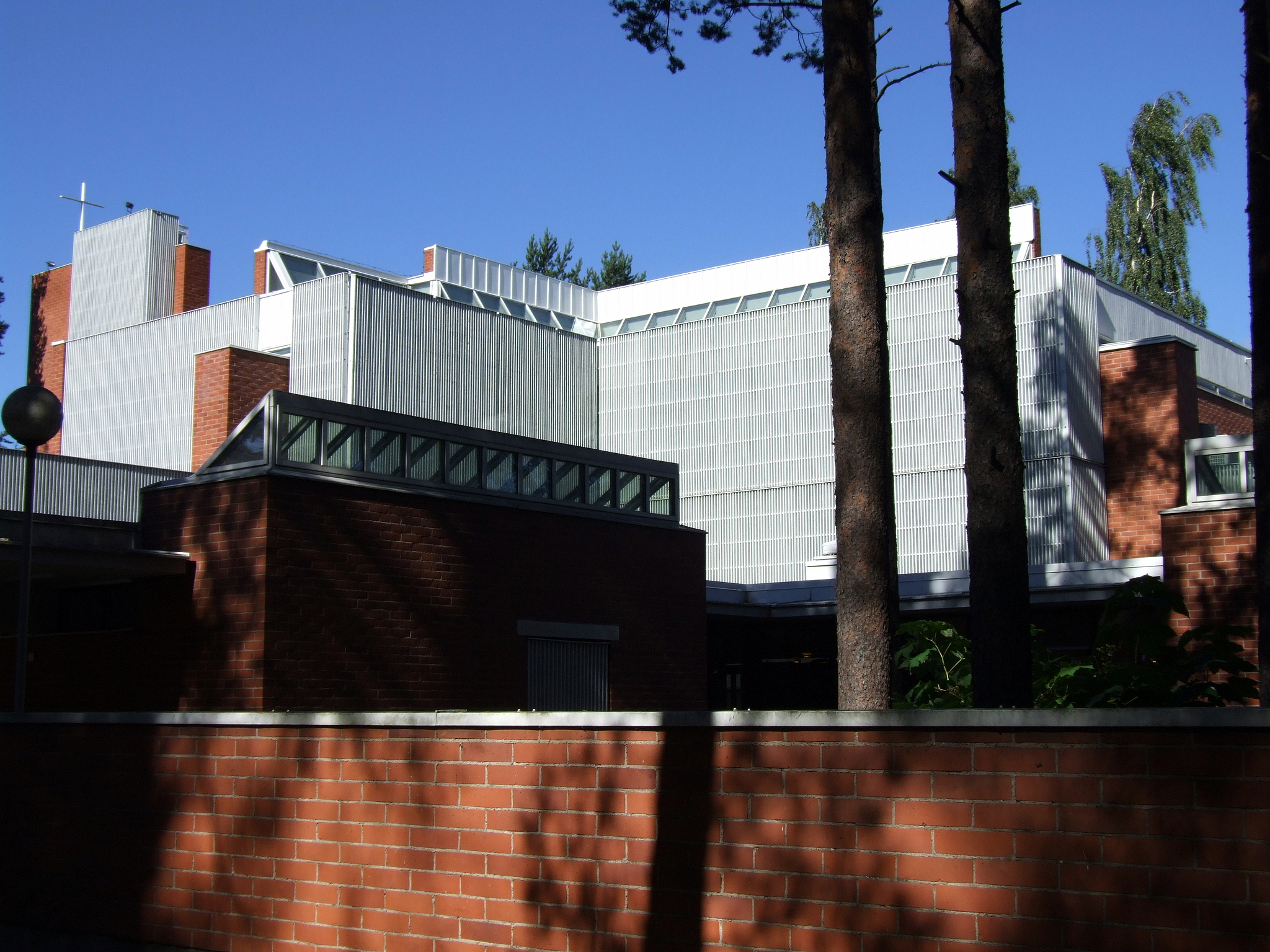 Saint Thomas Church in Puolivälinkangas, Oulu, Finland. The church was designed by architect Juha Leiviskä and it was completed in 1975.